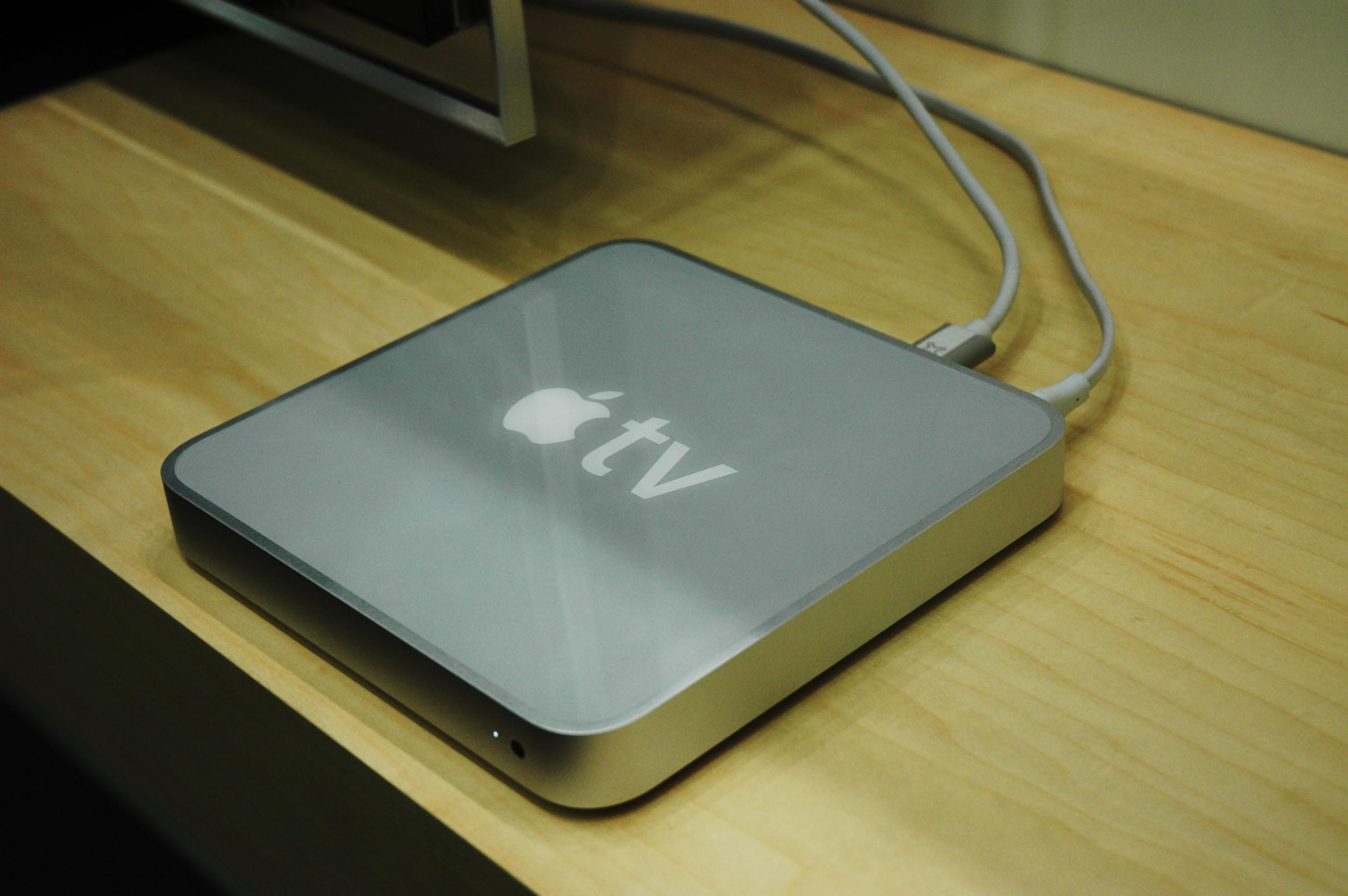 Apple TV at the Macworld 2007